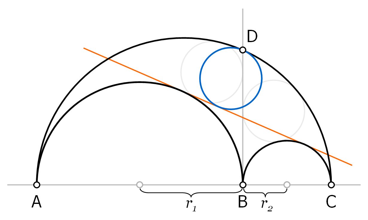 Arbelos – Bankoff quadruplet circle